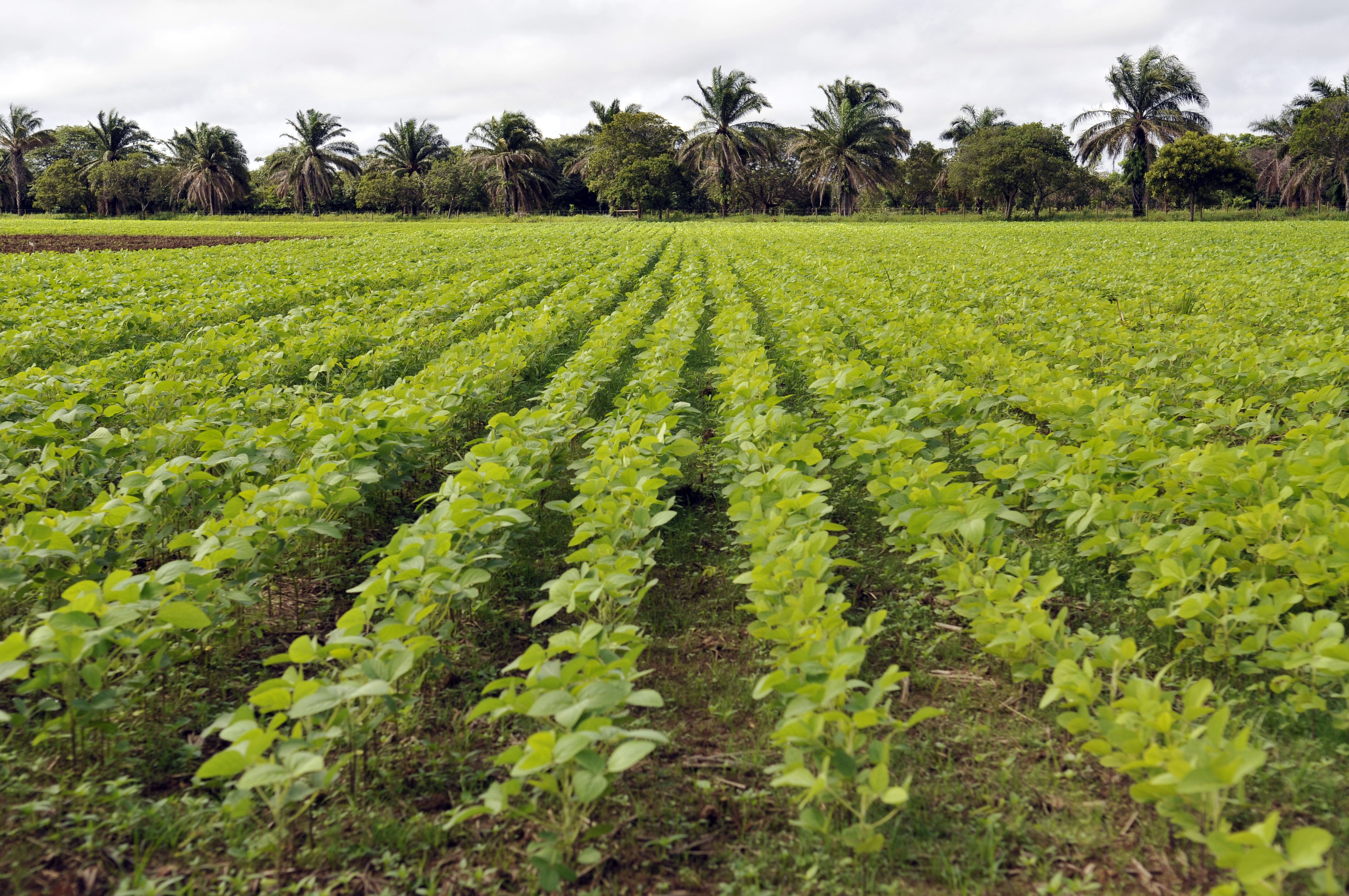 Pic by Neil Palmer (CIAT). Soy bean at Carimagua, in Colombia's eastern plains, or Llanos